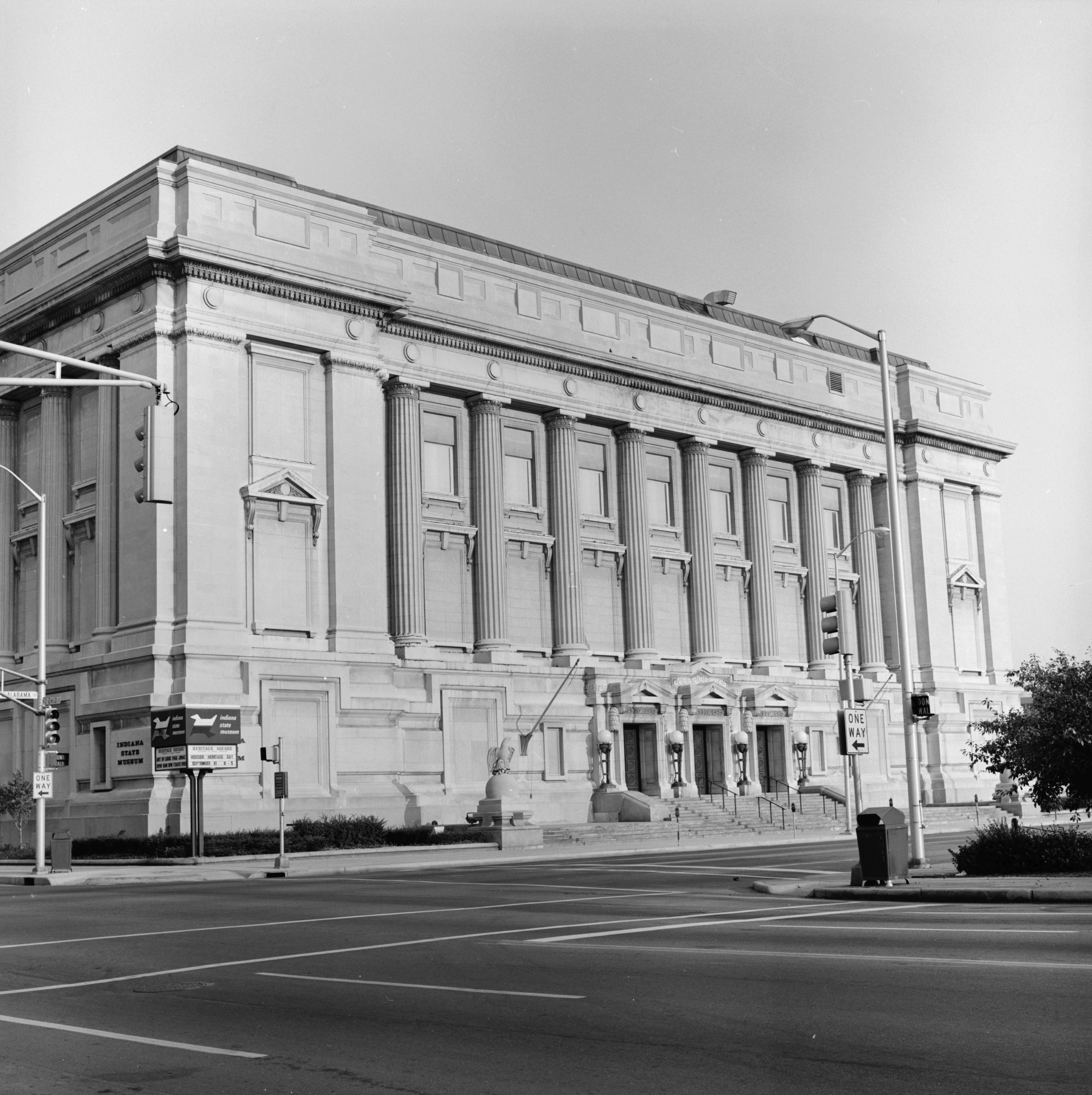 Front of the Old Indianapolis City Hall, located at 202 N. Alabama Street in Indianapolis, Indiana, United States. Built in 1910, it is listed on the National Register of Historic Places.